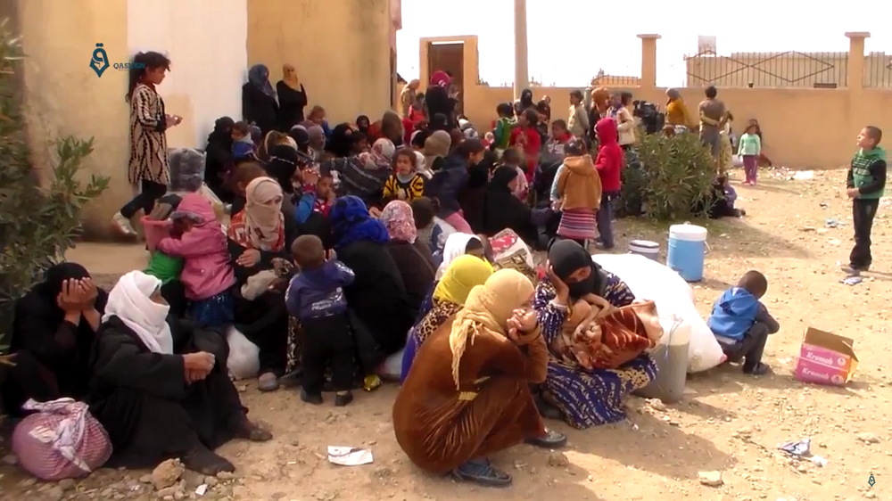 Refugees from Tabqa city, fleeing the fighting between the SDF and ISIL.